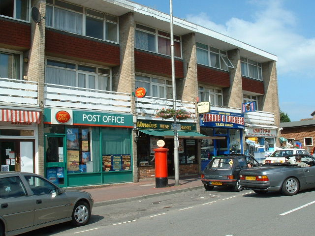 Borough Green Shops. Shopping arcade with Post Office at Borough Green, A227, just west of the station.